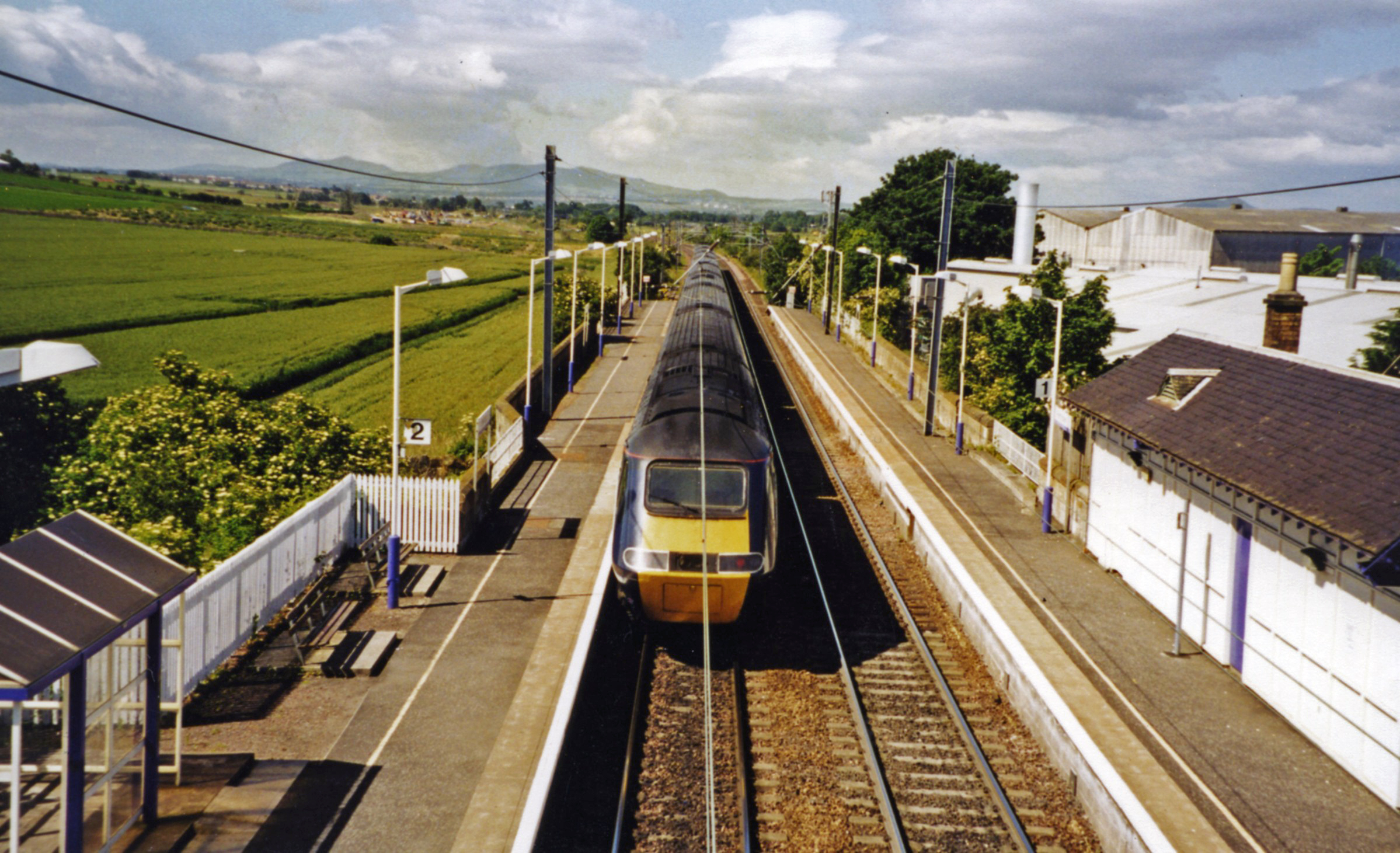 Prestonpans station in 2002. View SW, towards Edinburgh, with HST express receding: ex-NBR ECML Berwick - Edinburgh section, electrified 1991. On the horizon, Arthurs Seat and the Pentland Hills are prominent.